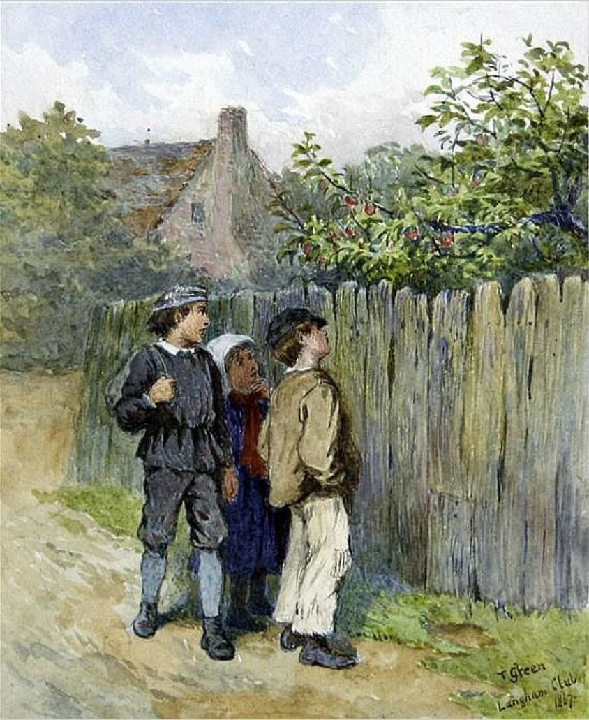 Henry Towneley Green, watercolour, "Scrumpers", signed and dated Langham Club 1867, 5.5 x 4.5in.